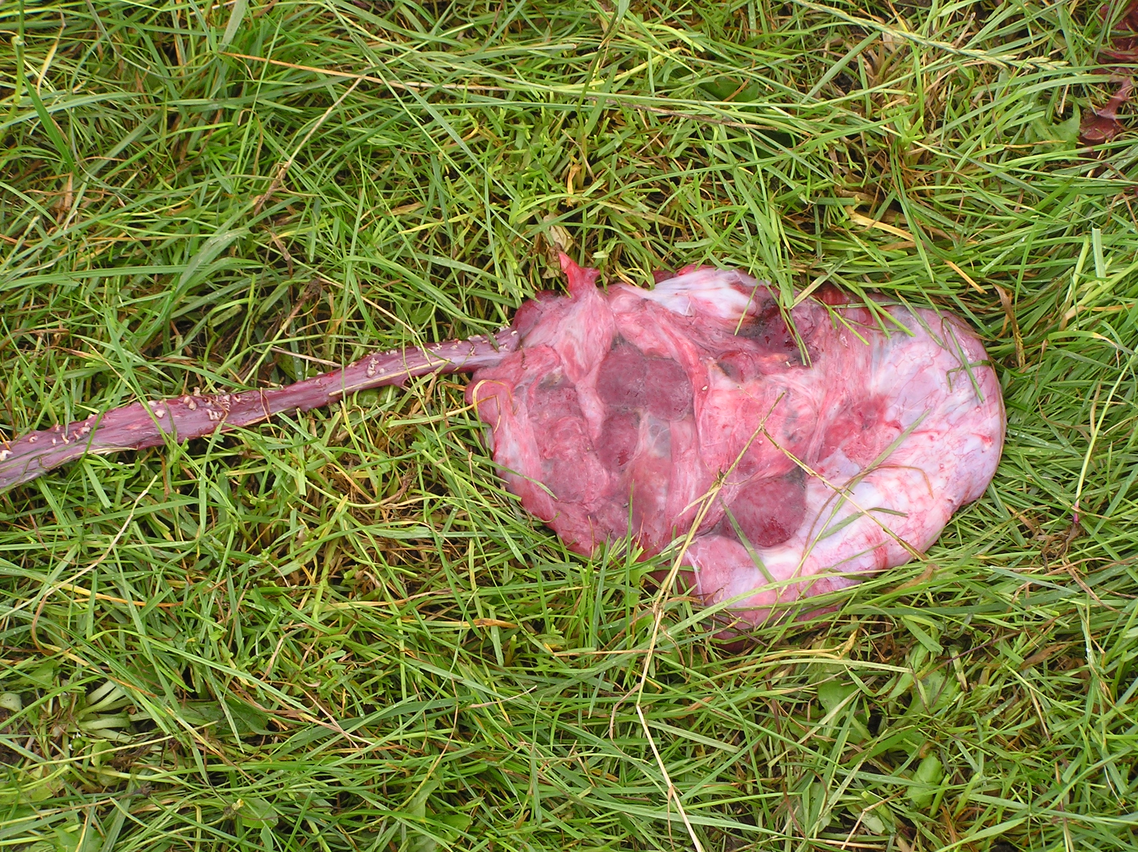 Sheep(mother 1 Hour after birth)